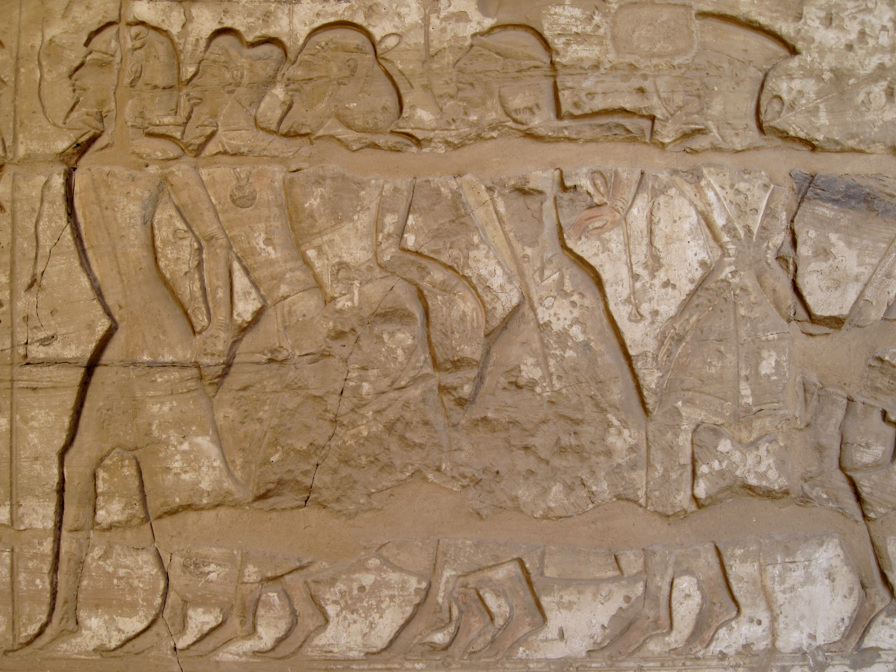 Relief from the temple of Ramses III in Medinet Habu describing an Asiatic, Shasu and Libiyan captives, Egypt.